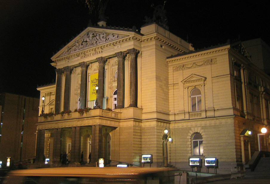 Praha, Statní opera (State Opera House, originally built as "Neues Deutsches Theater" [New German Theatre])